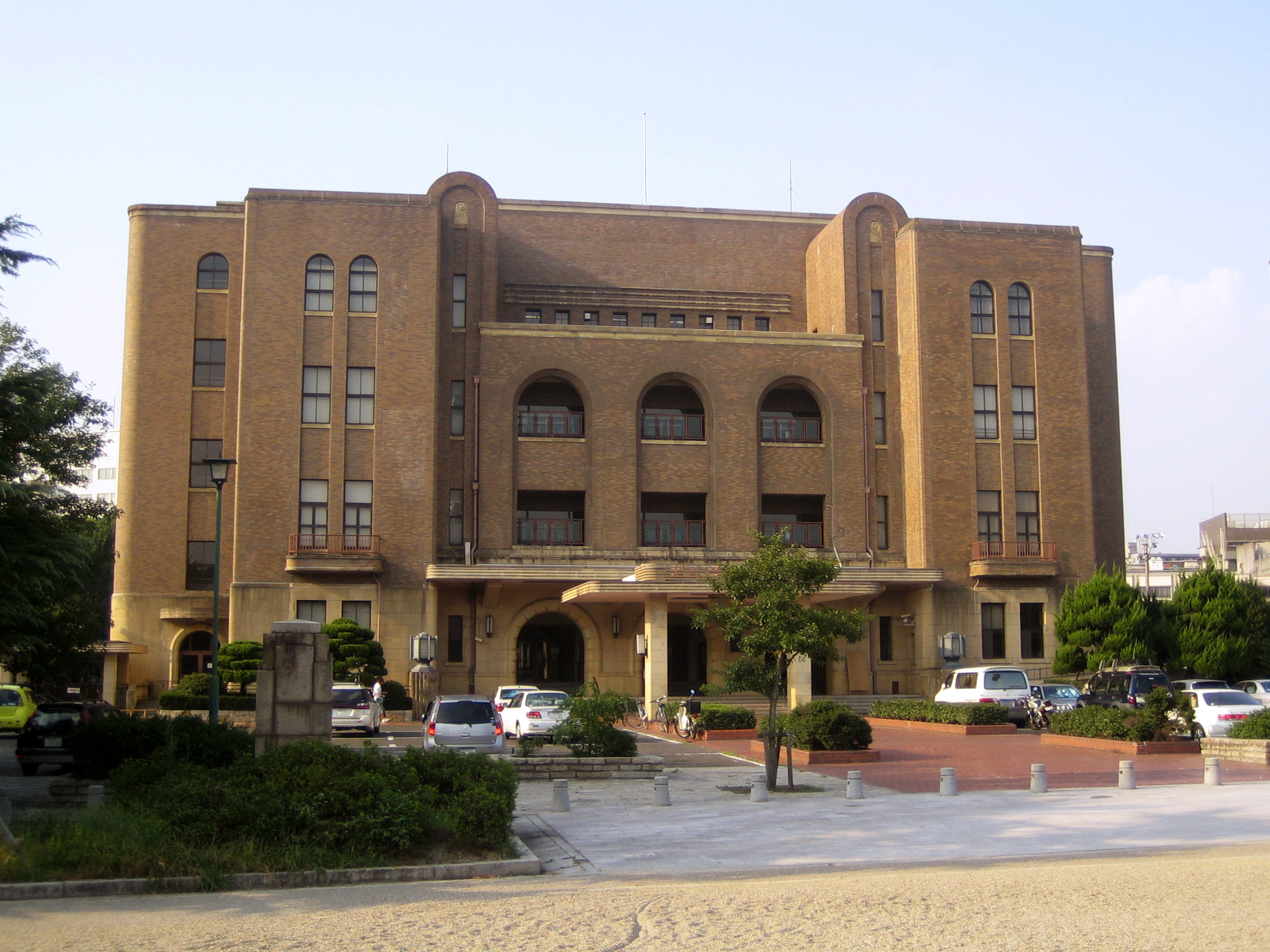 Nagoya City Public Hall (名古屋市公会堂), in Showa, Nagoya